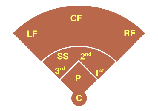 Diagram of player positions on baseball field.